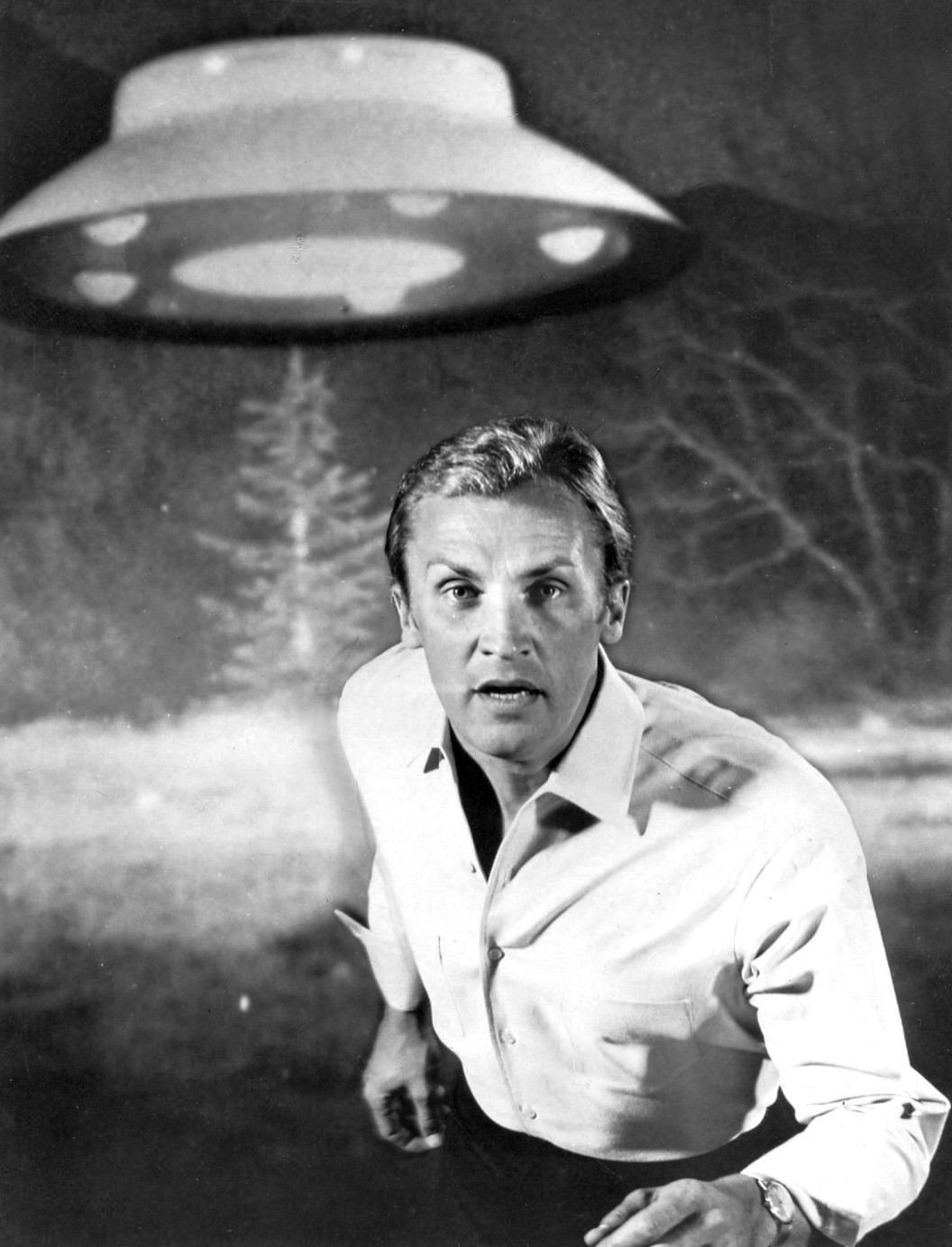 Photo of Roy Thinnes as David Vincent from the television program The Invaders.